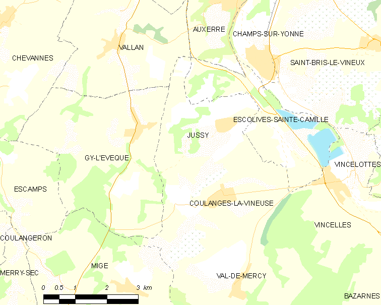 Map of French municipality Jussy